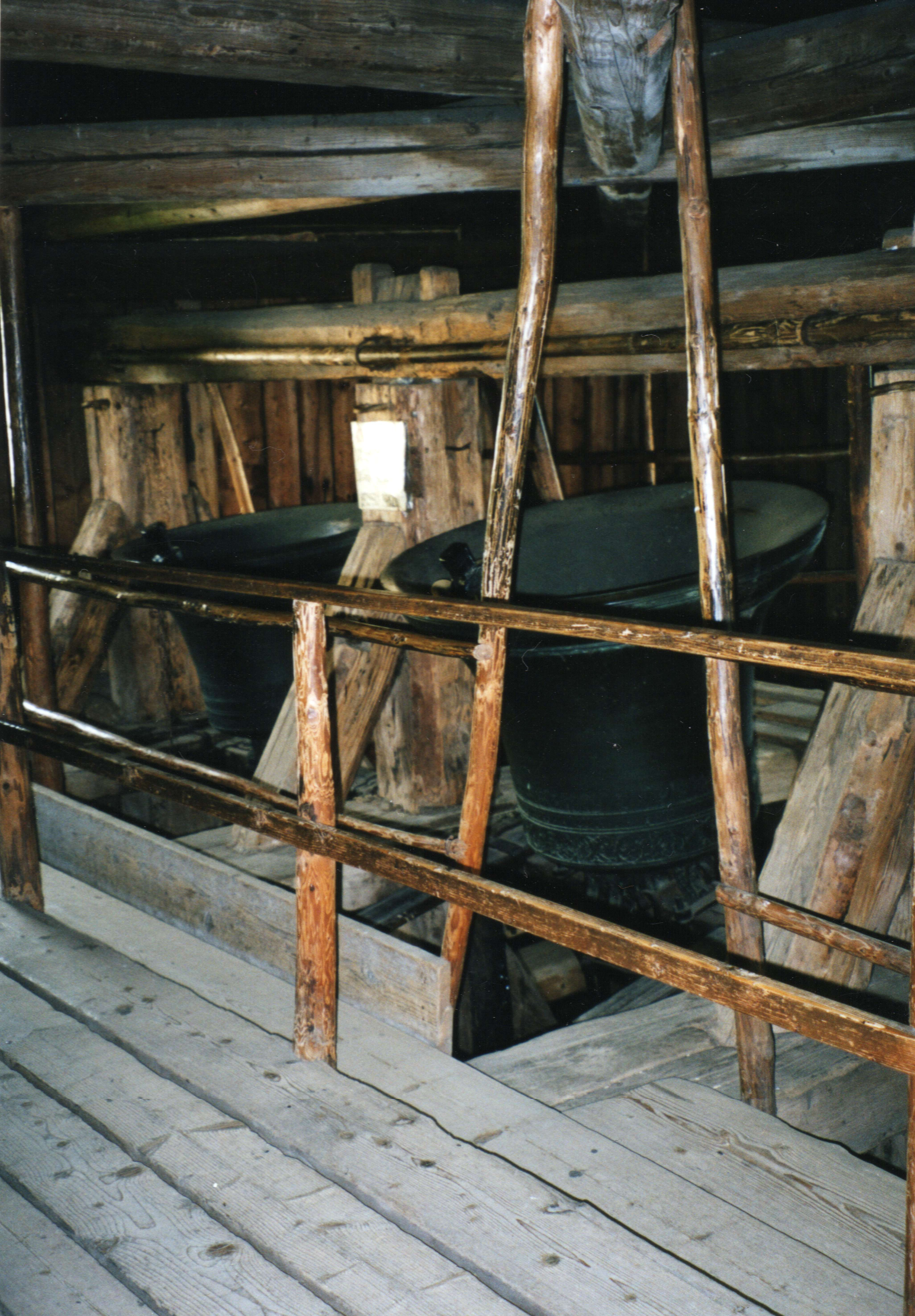 Bells of Martin Schroetter from 1630 in the bell tower of St. Wenceslaus Church in Rovensko pod Troskami, Semily District, Liberec Region, Czech Republic. Bells hanging up side down.